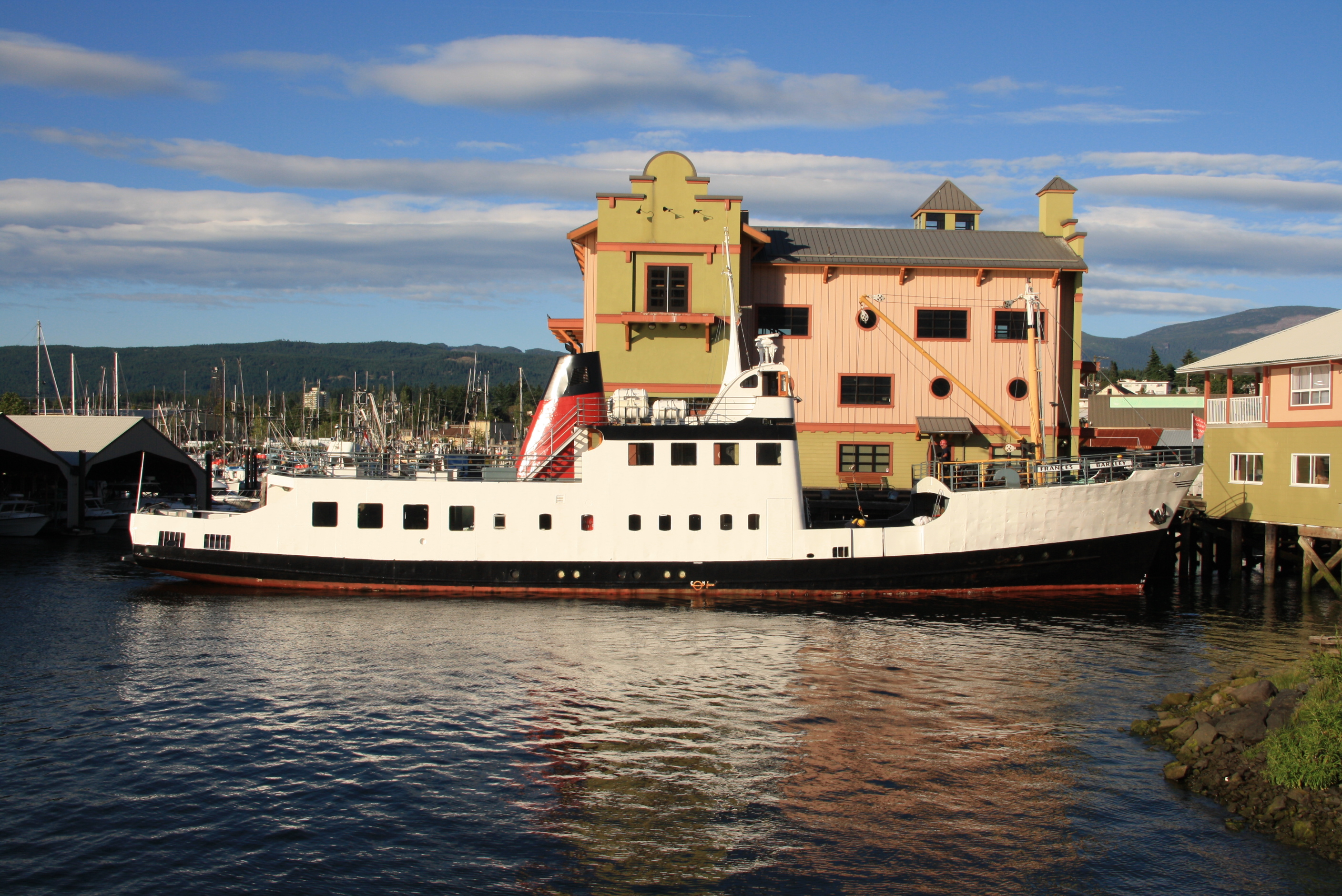 MV Frances Barkley at the port of Port Alberni.